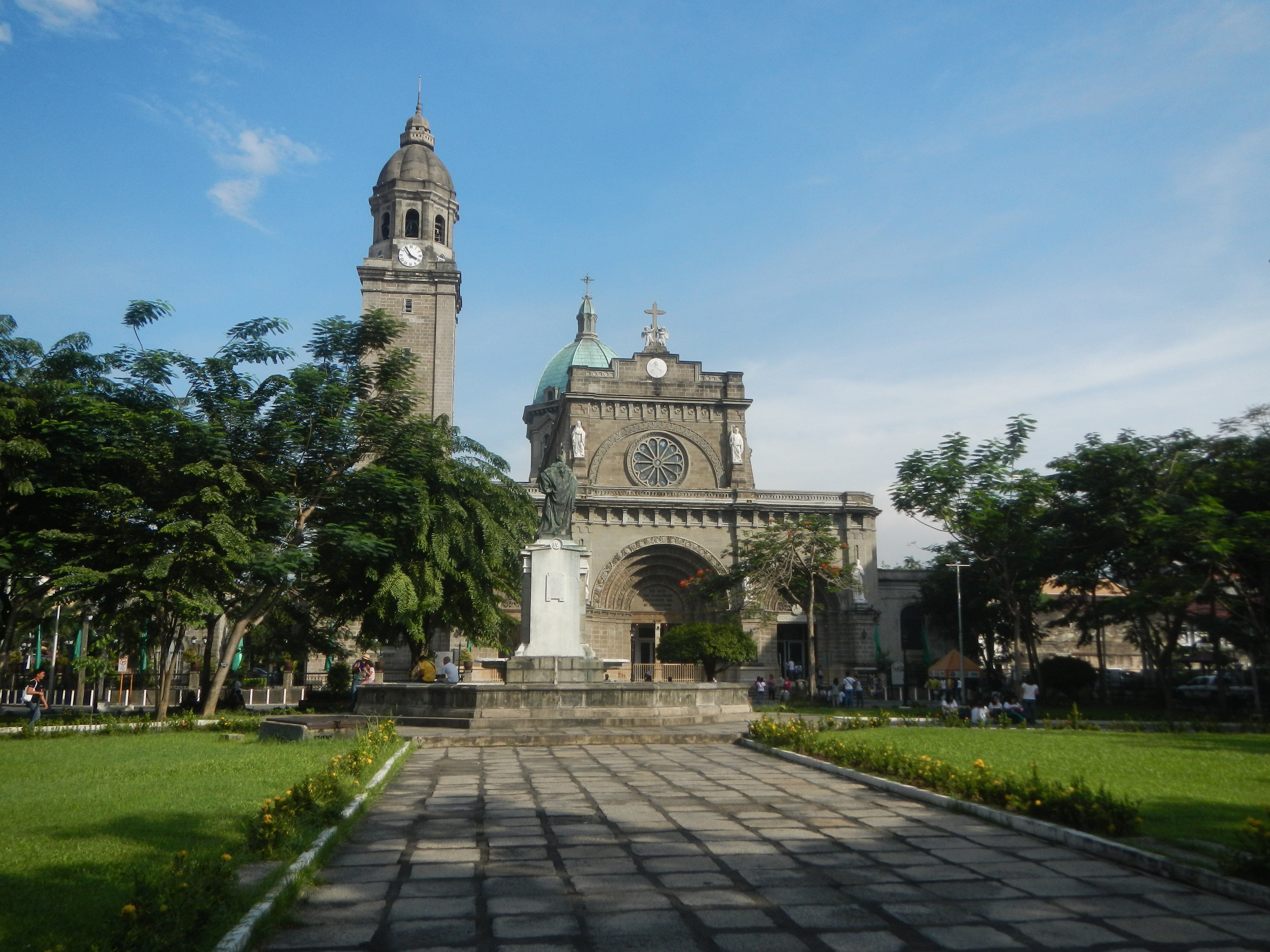 Casa Rocha Intramuros, Landmarks include the Palacio del Gobernador in front of the Manila Cathedral Rufino J. Cardinal Santos Bell Garden, Jaime L. Cardinal Sin Ground Belfry (7 big bells 17 tons, from the Bell Tower Belfry, foundered by Friedrich Wilhelm Schilling, 1 of the 7 bells is bigger than the Pan-Ay Bell, the now 2nd largest in Philippines, Archbishop Gabriel M. Reyes Audio-Visual Room, Carillon Bells, Parish Office, Rectory Main facade Exterior and Interior of the Manila Metropolitan Cathedral-Minor Basilica of the Immaculate Conception re-opened on April 9, 2014 after structural retrofitting, architectural restoration and engineering enhancements; Plaza de Roma, Intramuros 1886 Fountain King Charles IV of Spain monument, Intramuros along Genral Luna Real de Palacio Street corner A. Soriano, Jr. Avenue (formerly Aduana) corner Arzobizpo Street; Main facade-Clock Tower-Belfry; (Note: Judge Florentino Floro, the owner, to repeat, Donor Florentino Floro of all these photos hereby donate gratuitously, freely and unconditionally all these photos to and for Wikimedia Commons, exclusively, for public use of the public domain, and again without any condition whatsoever).